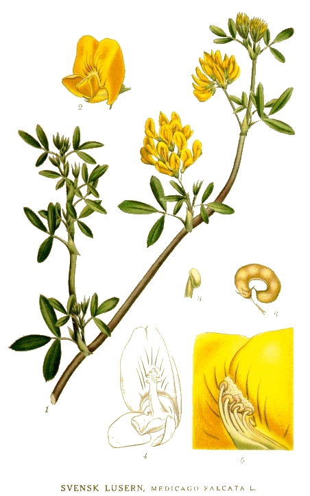 Illustration of Medicago falcata.